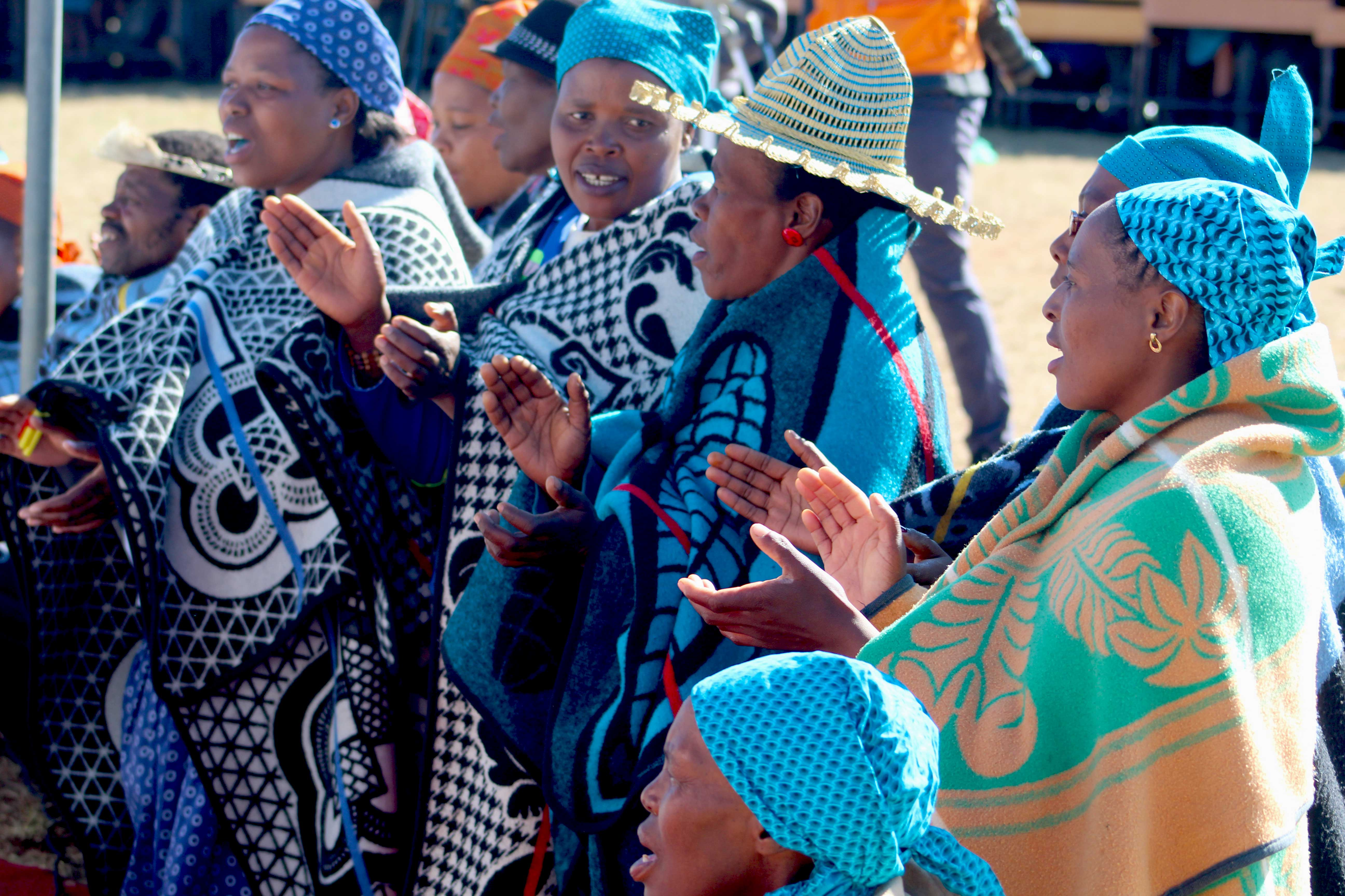 This is an image with the theme "Play" from: Lesotho